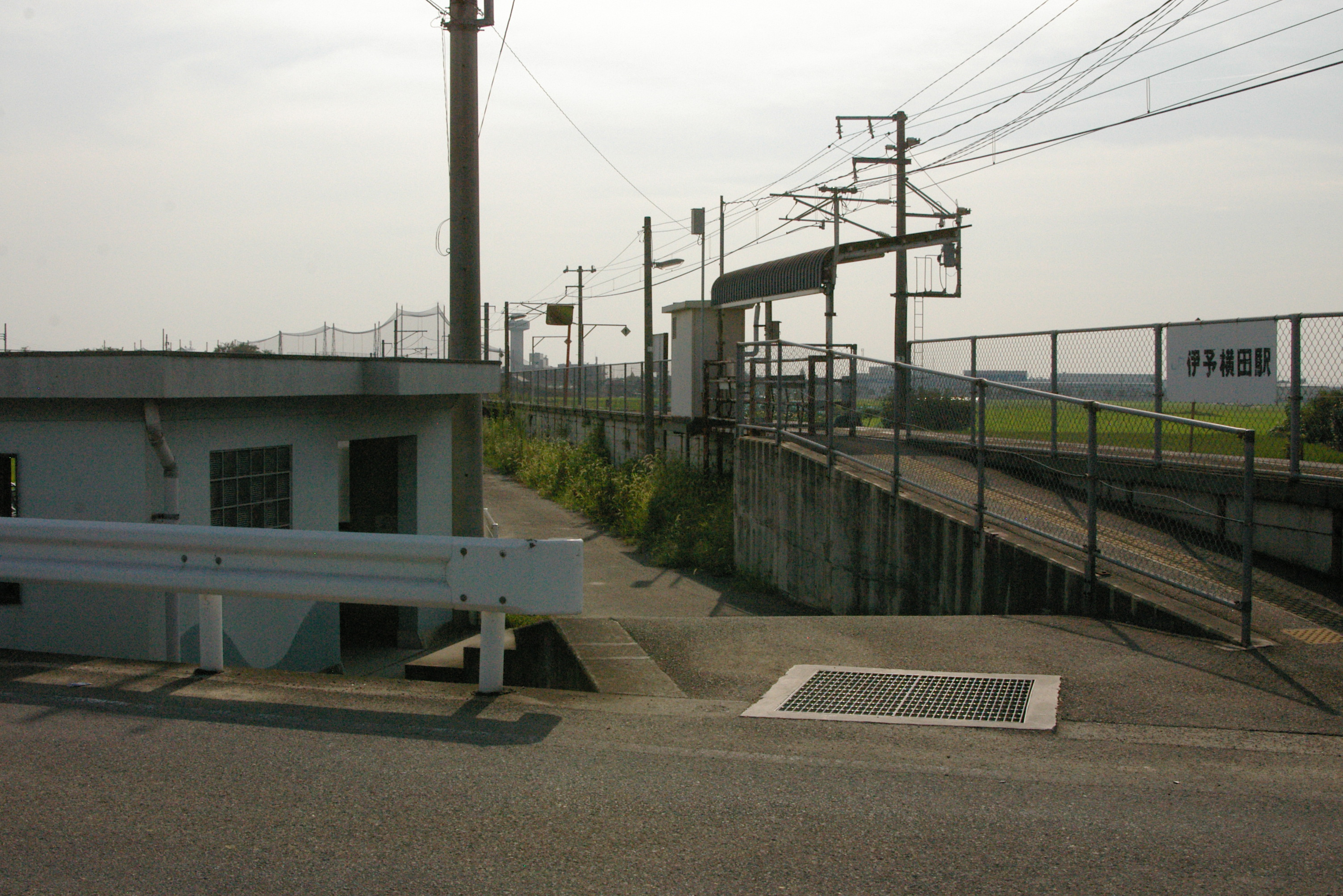 Iyo-Yokota Station (entrance) Uploaded in August 22,2008